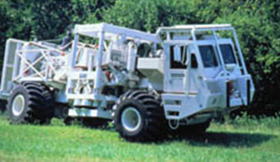 Seismic Acquisition